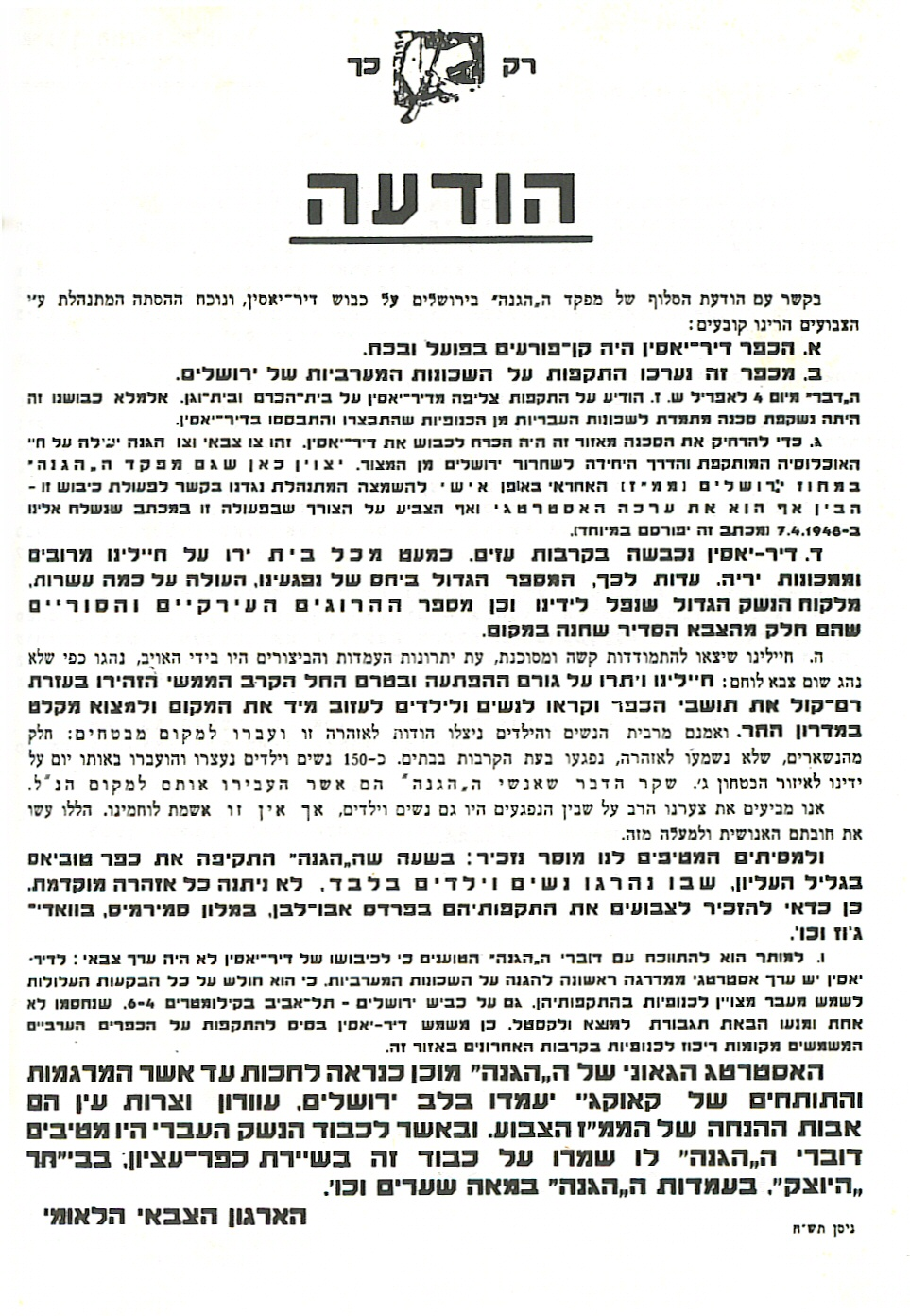 Hebrew public statement of the Irgun about the Deir Yassin massacre.